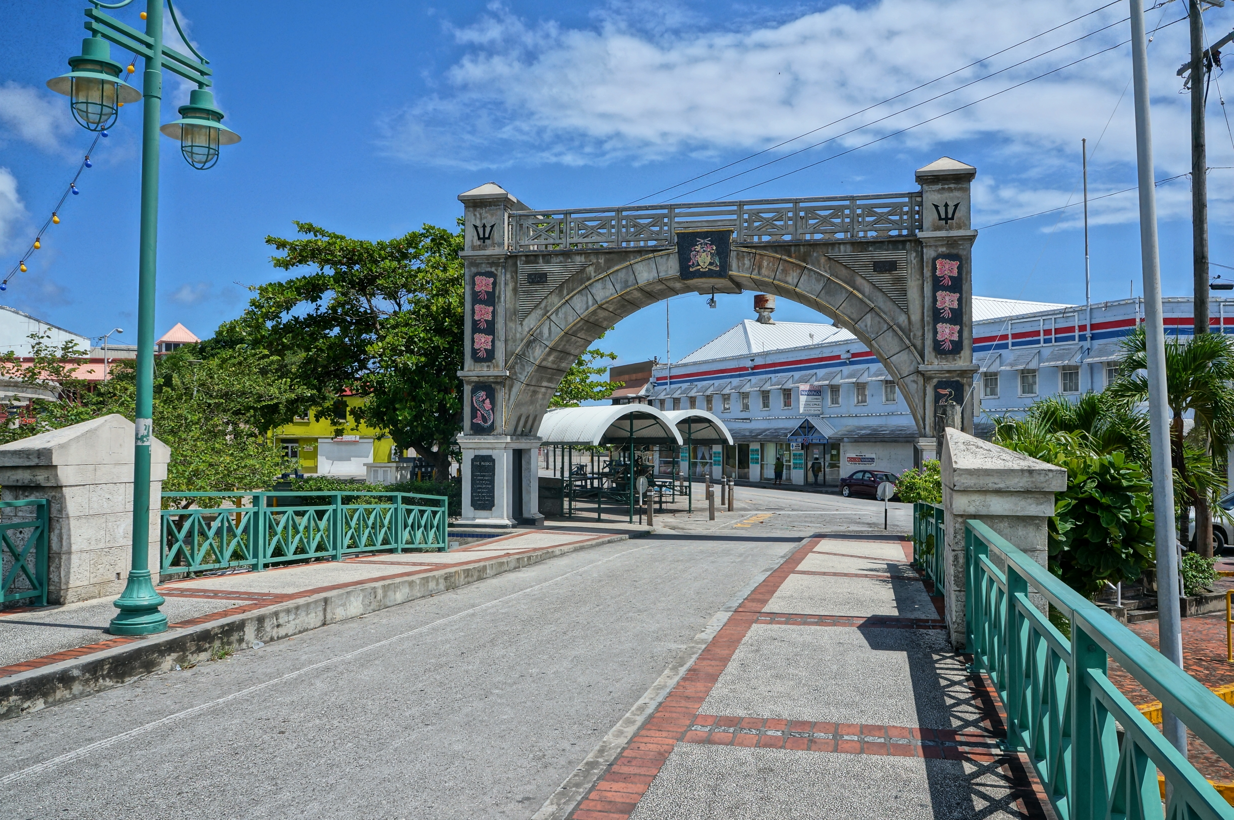 Bridgetown, Barbados.